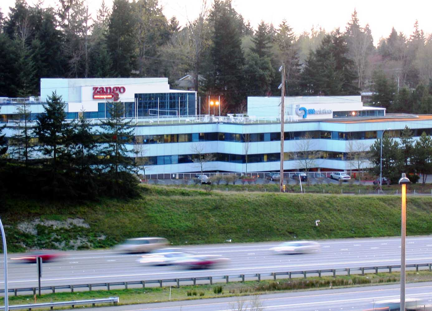 The 180Solutions - Zango building. Home of a major player in the realm of Adware and Spyware